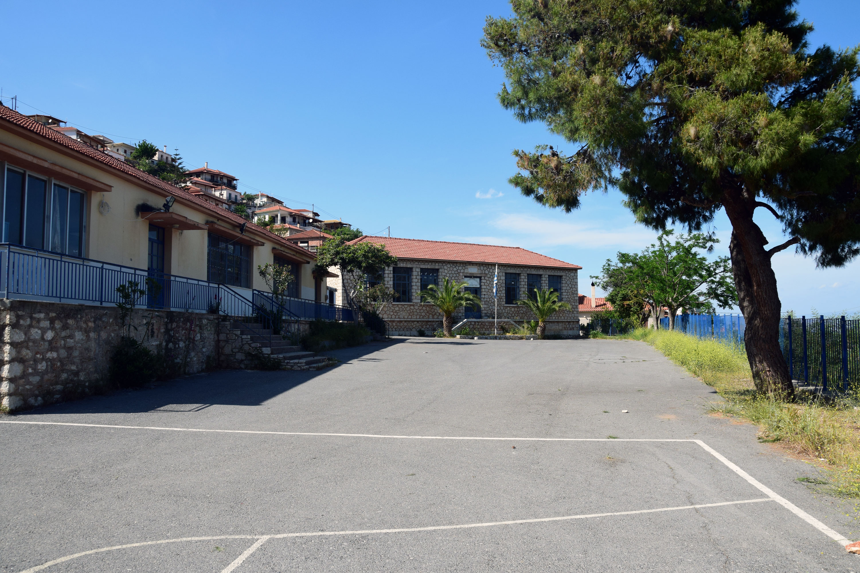 The building of the Primary school in Korakovouni village in Arcadia, Greece.